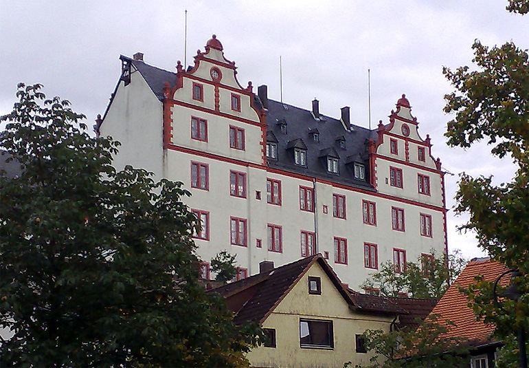 Castle Lichtenberg in Fischbachtal (Odenwald)